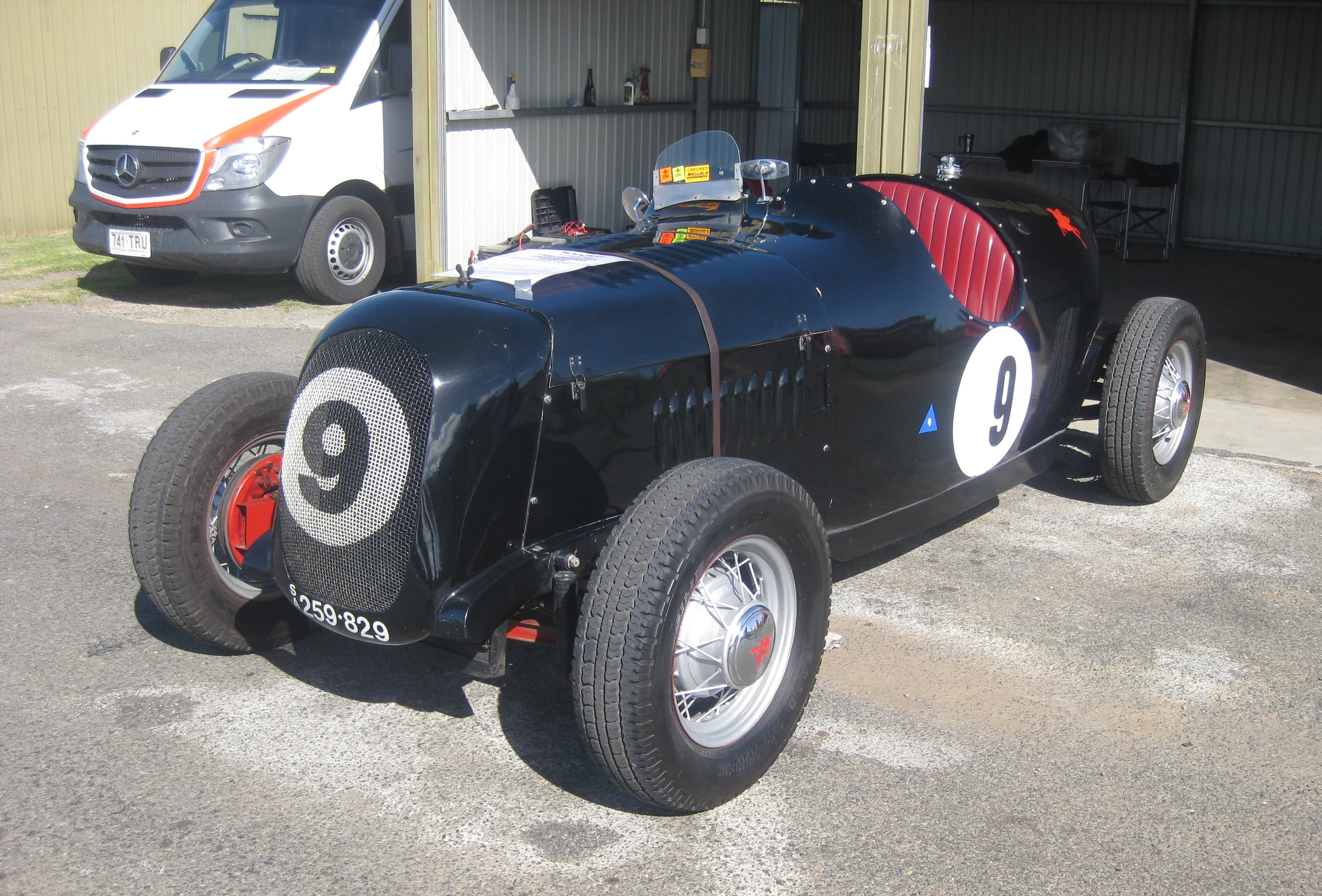 The Ford V8 Special in which Doug Whiteford won the 1950 Australian Grand Prix. The car, which was commonly referred to as “Black Bess”, is pictured at Mallala Motor Sport Park on 19 April 2014.